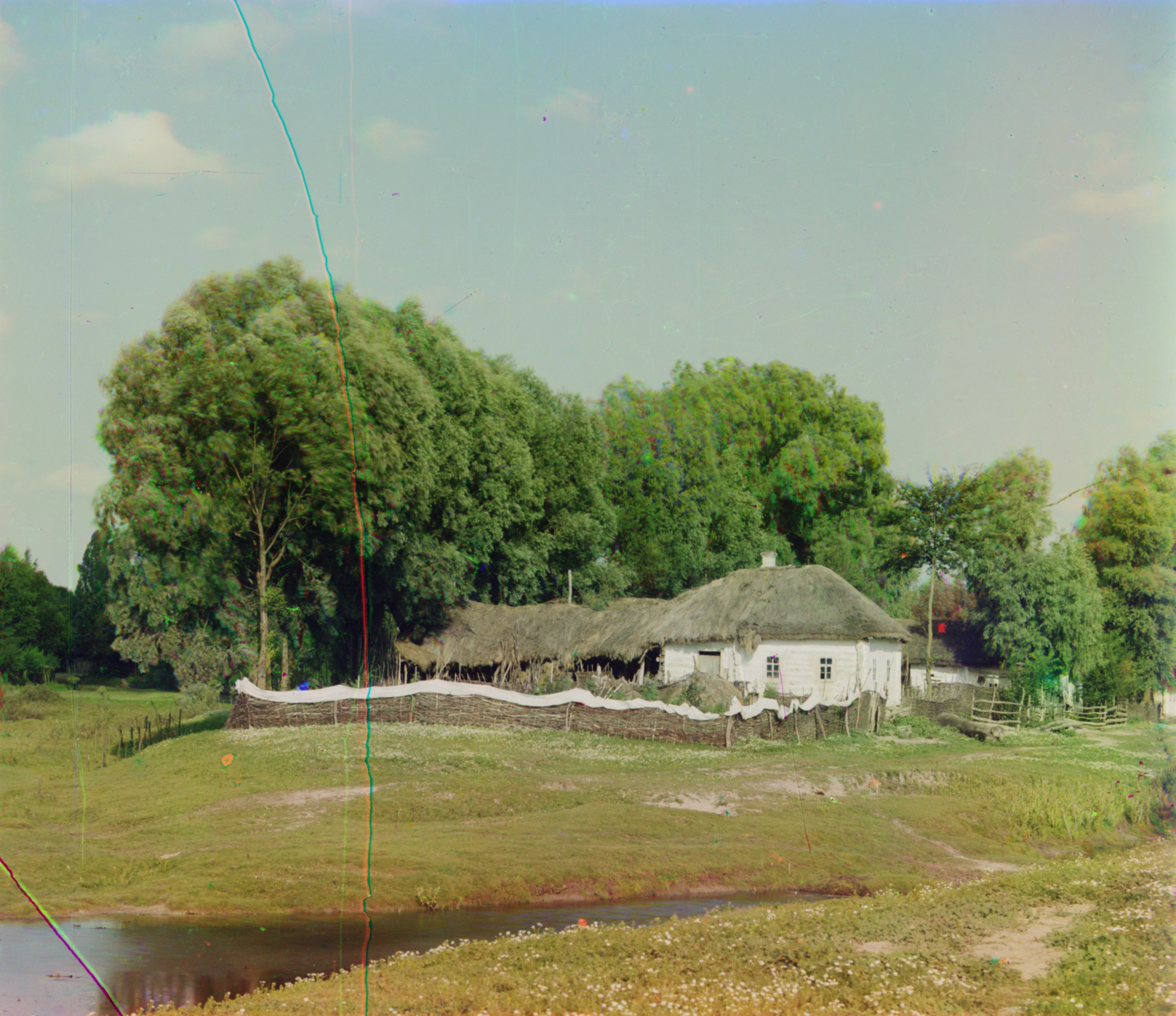 Original description: In Lesser Russia [i.e. Ukraine]. Album: Various views and studies, Russian Empire and Europe, LOT 10333, no. 16. Digital color composite made for the Library by Blaise Agüera y Arcas, 2004.